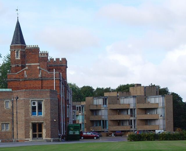 North Court, Jesus College, Cambridge. The grassy area in the foreground is used for sporting activities (cricket), and the car parking area is known affectionately as "The Pebbles".